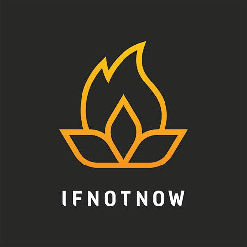 The IfNotNow Square Logo